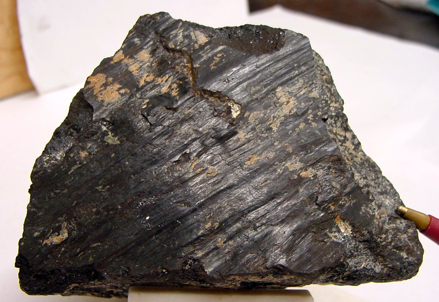 Chromite Locality: unknown Original description: Chromite (Spinel). Pen for scale. Mineral collection of Brigham Young University Department of Geology, Provo, Utah. Photograph by Andrew Silver. BYU index 4-6014, FeCr_2O_4.